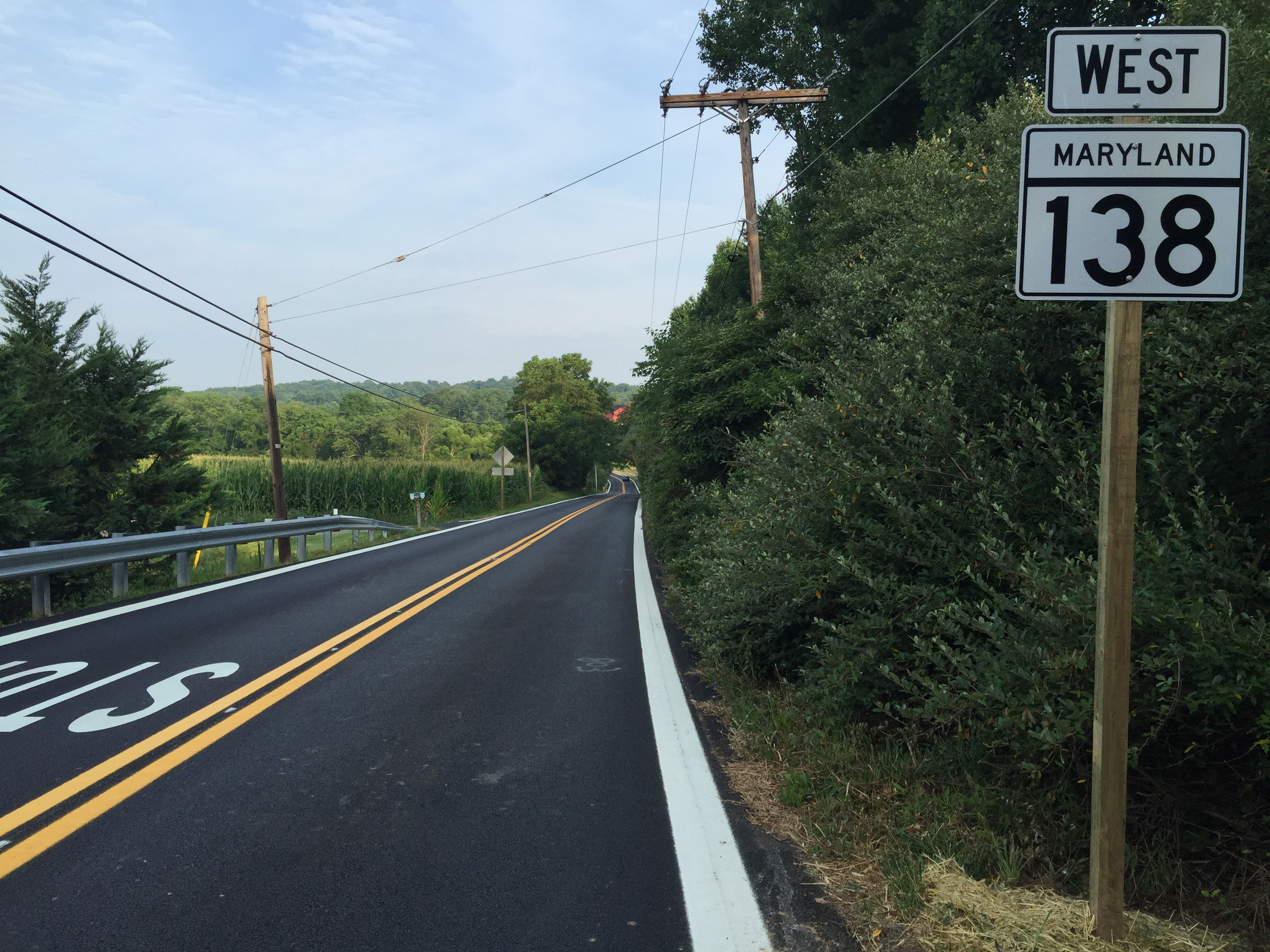 View west along Maryland State Route 138 (Shepperd Road) just west of Gerting Road in northern Baltimore County, Maryland